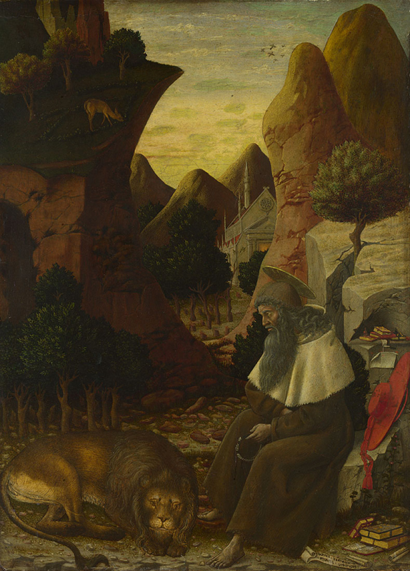 Bono da Ferrara - Saint Jerome in a Landcape